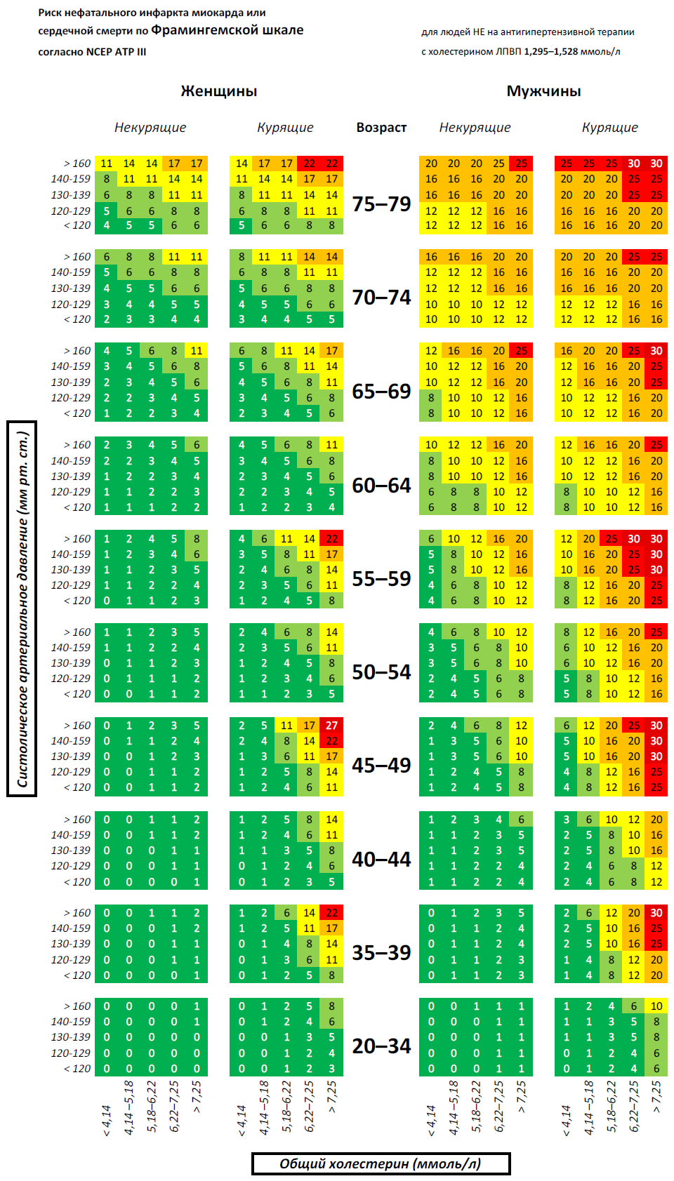 Nonfatal myocardial infarction and death 10-year risk chart for people with HDL cholesterol 50–59 mg/dL (1,295–1,528 mmol/L) and not taking PB-lowering medications. According to Framingham score per NCEP ATP 3 (2002).